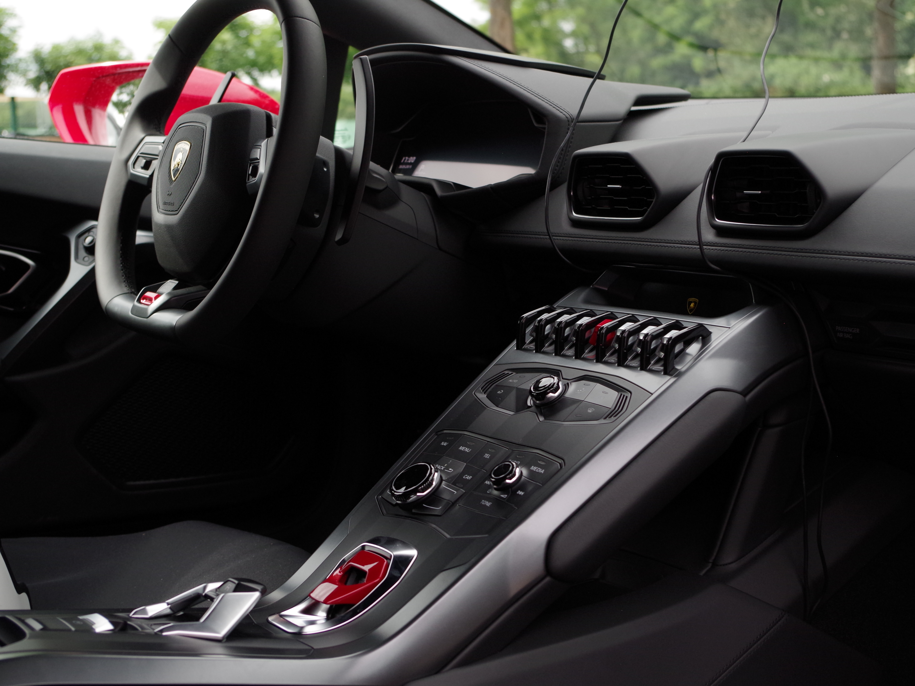 Lamborghini Huracán 610-4 center console.